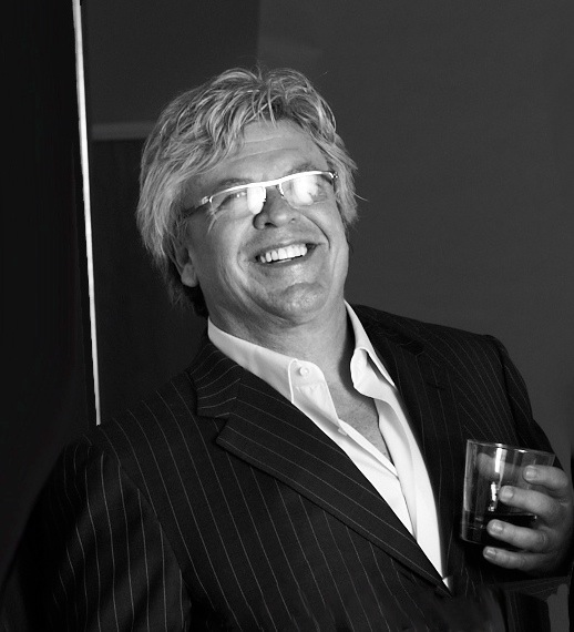 Ron White